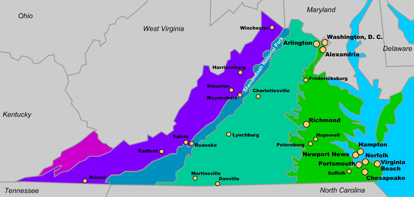 map of Virginia, with regions and major cities